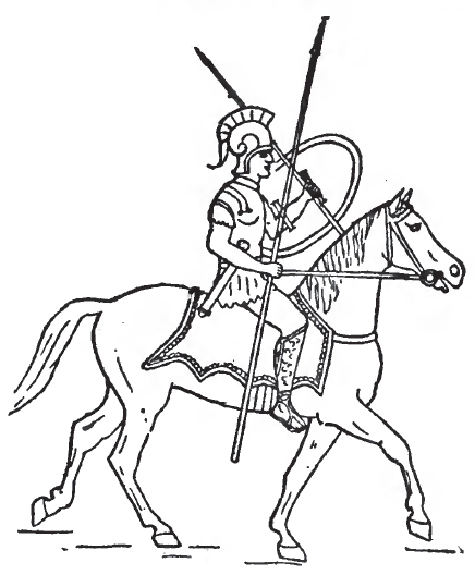 Sacred Band cavalryman of the army of Hannibal, as printed in Theodore Ayrault Dodge's A HISTORY OF THE ART OF WAR AMONG THE CARTHAGINIANS AND ROMANS DOWN TO THE BATTLE OF PYDNA, 168 B. C., WITH A DETAILED ACCOUNT OF THE SECOND PUNIC WAR Houghton Mifflin Company, Boston & New York (1891). Hand scanned.